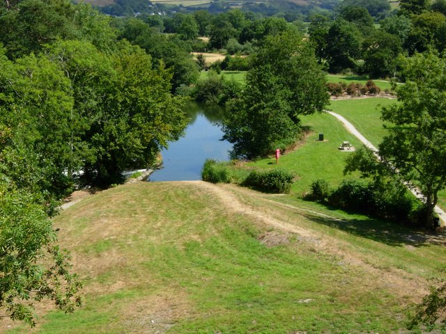 View from the Castle, Newcastle Emlyn. The Afon Teifi loops round the elevated site of the castle ruins, surrounding them on three sides.